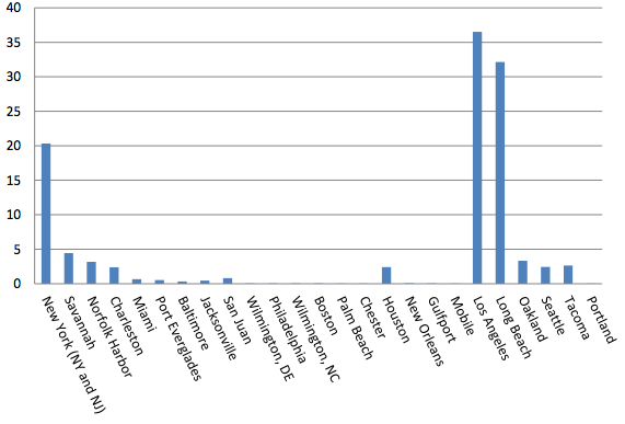 Busiest container ports